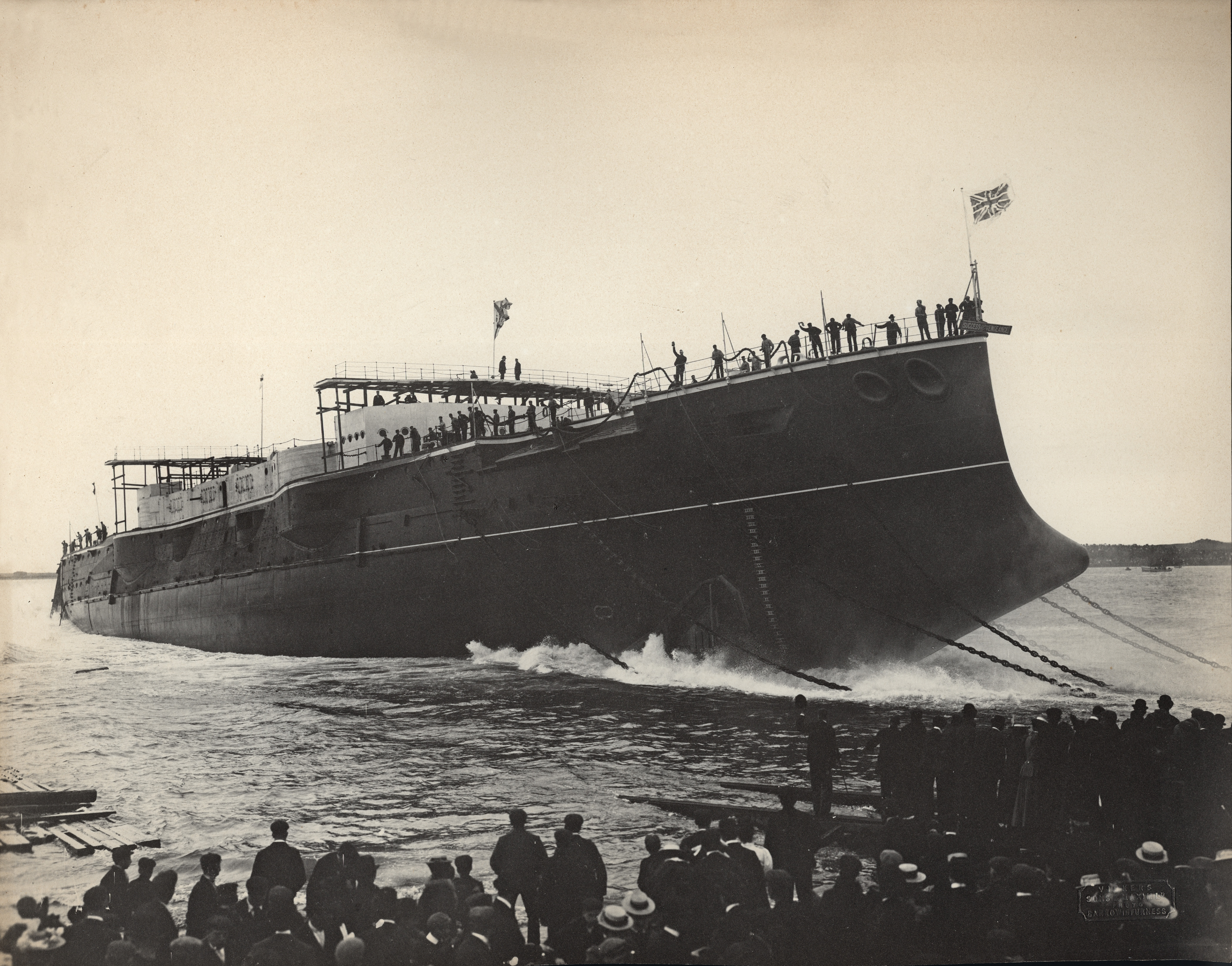 Format: Fotopositiv Dato / Date: 25 Juli 1899 Fotograf / Photographer: Ukjent Sted / Place: Barrow-in-Furness, England Wikipedia: HMS Vengeance (1899) Wikipedia: Vickers Wikipedia: Stabelavløpning Eier / Owner Institution: Trondheim byarkiv, The Municipal Archives of Trondheim Arkivreferanse / Archive reference: Tor.H44.L01.F9329